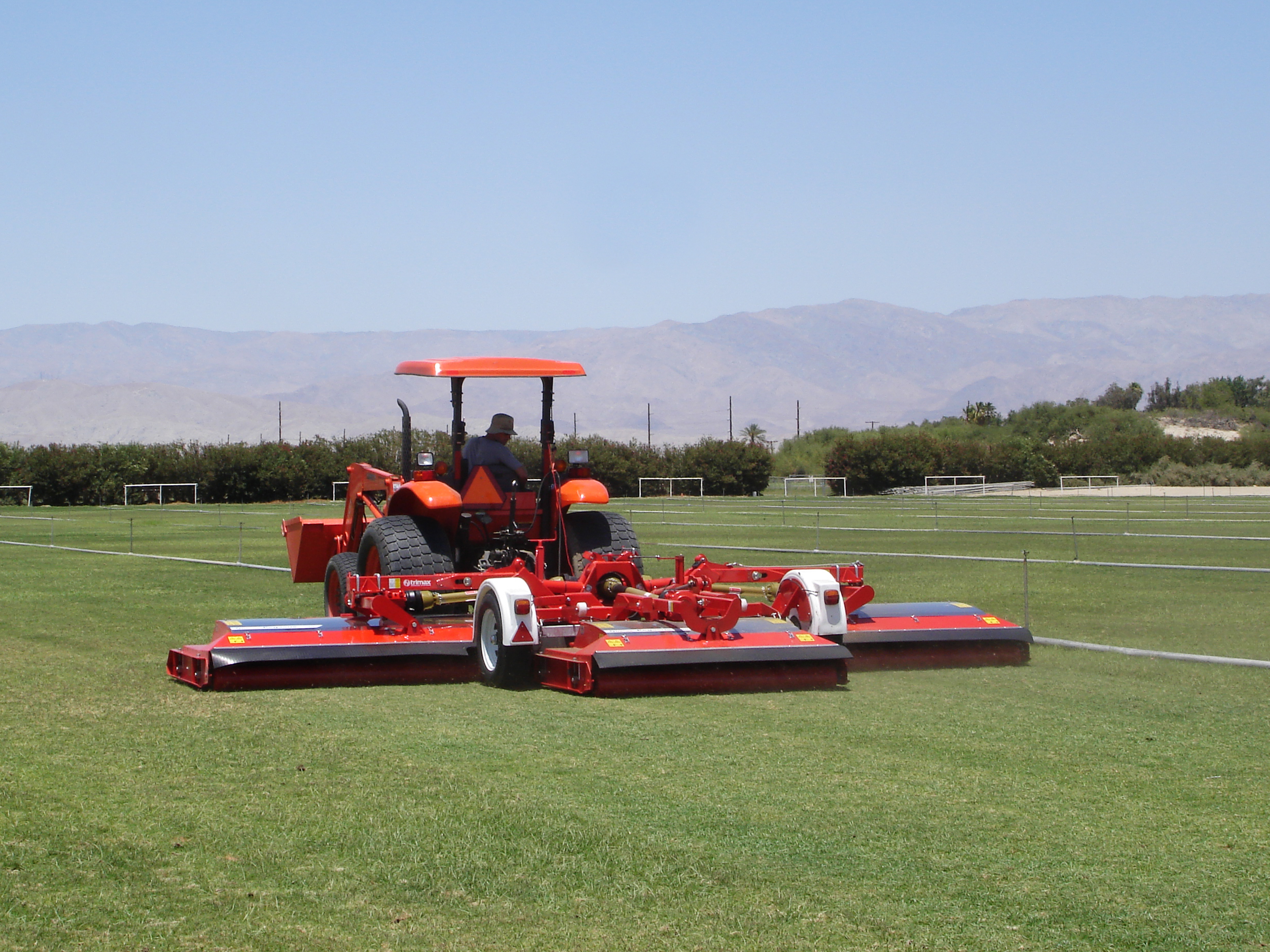 A typical Sod farm mower in operation.